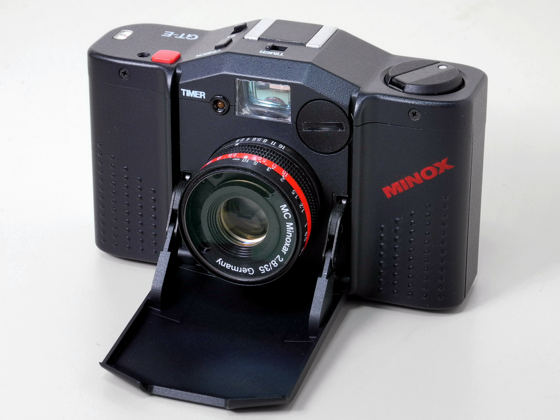 Minox35 GT-E